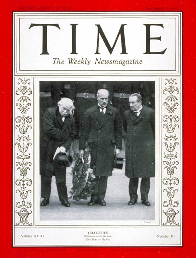 Coalition leaders (left to right) David Lloyd George, Ramsay MacDonald, and Stanley Baldwin.